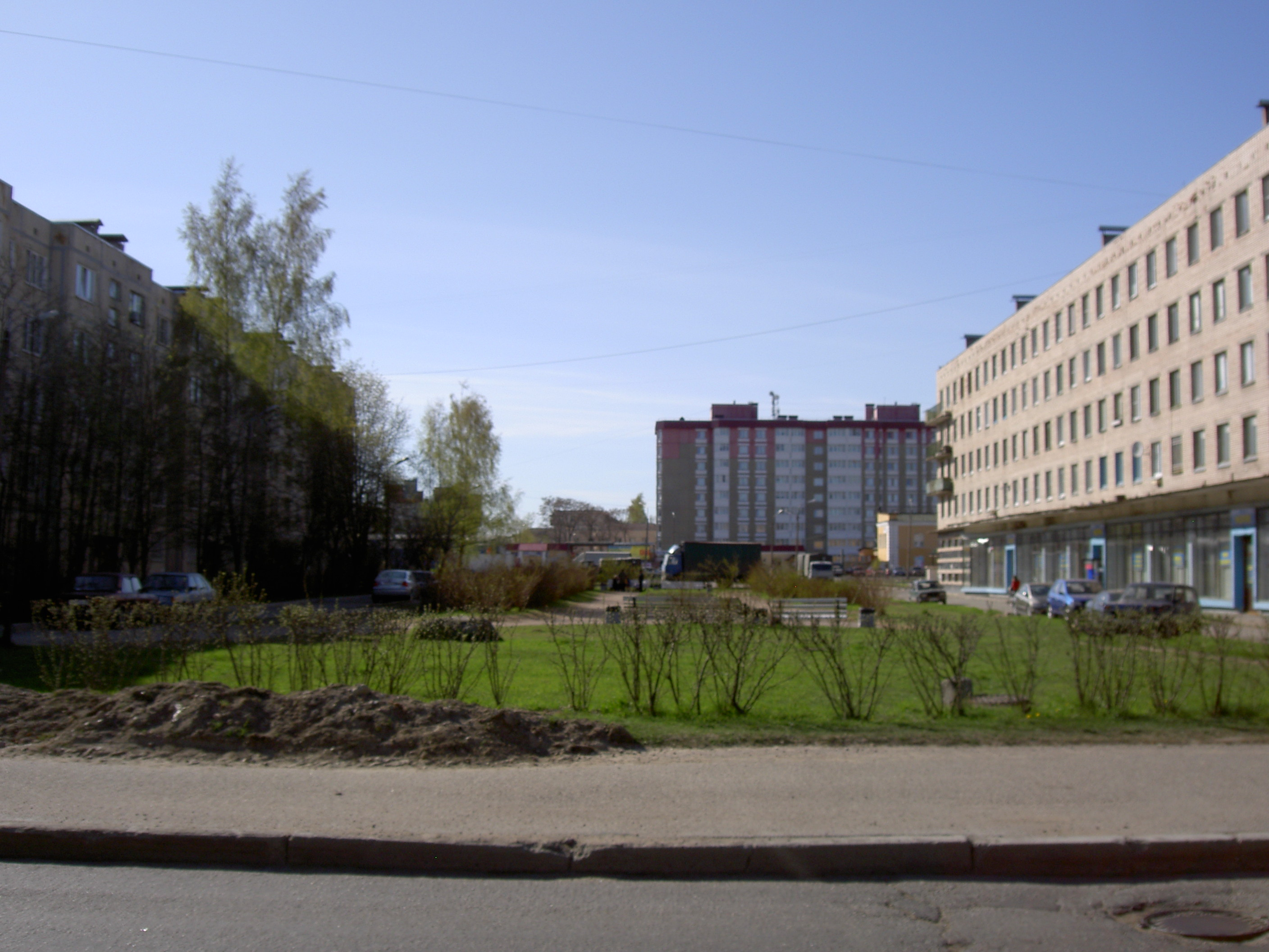 Shveytsarskaya street. View from Oranienbaumsky prospect